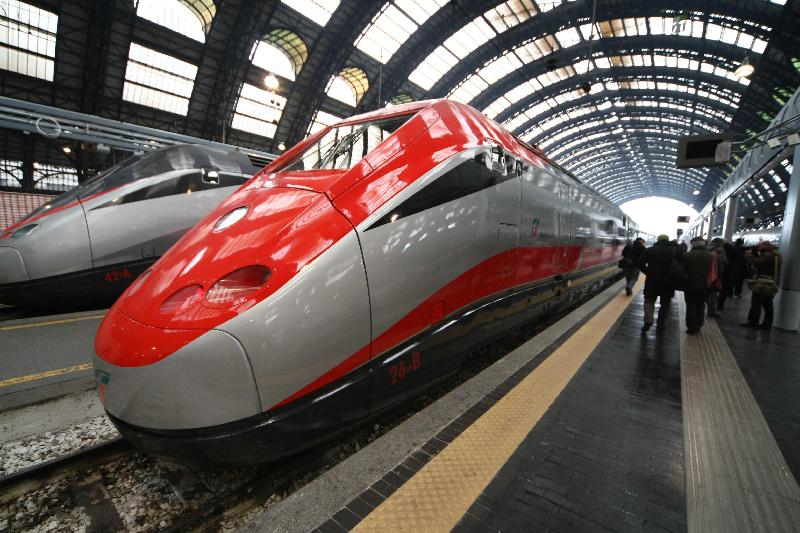 Italian speed train Frecciarossa ETR500 (Red arrow ETR500), train station Milano, Italy